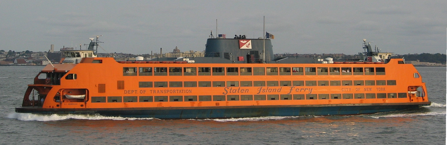 Staten Island Ferry (Manhattan bound). Image taken by User:Dschwen on September 15th 2004.